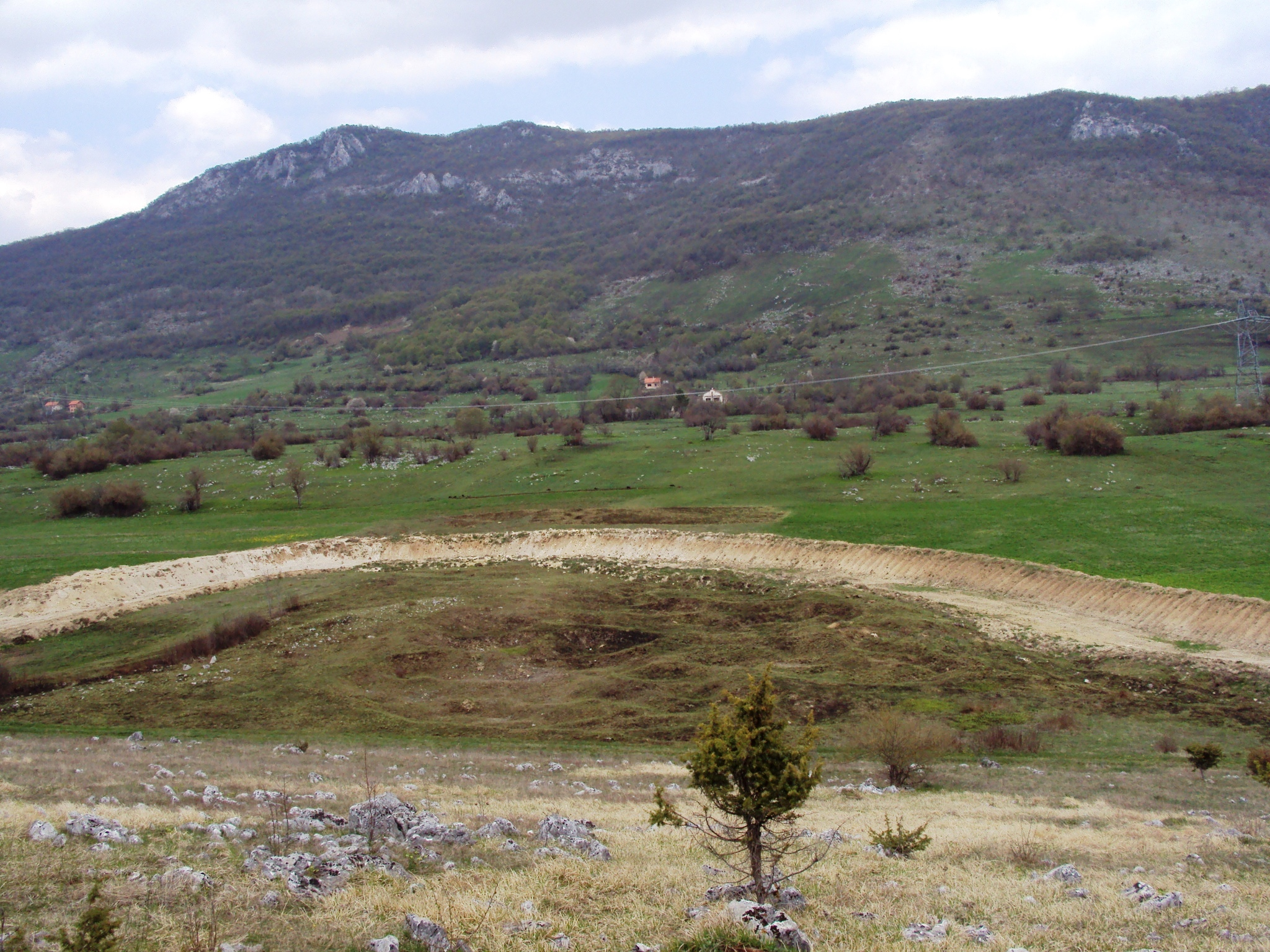 The village of Drenov Klanac, Region of Lika, Croatia